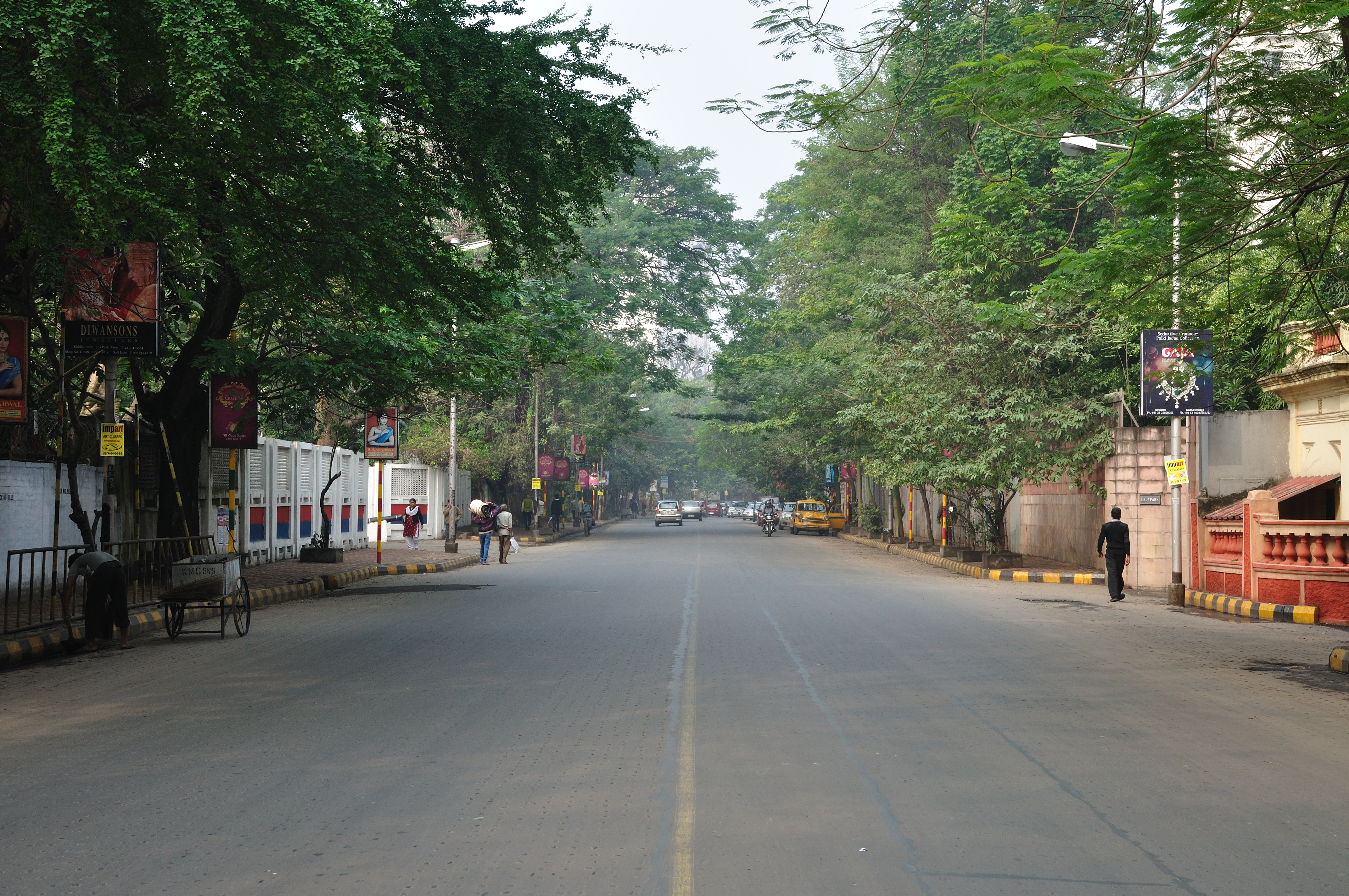 Gurusaday Dutta Road (or Gurusaday Road) is one of the poshest areas of Kolkata. Its old name was Ballygunge Store Road. It was named after Gurusaday Dutt, an ICS officer and a Bengali patriot.